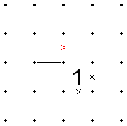 A 1 next to a line (opposite)